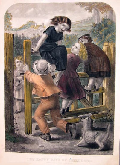 "The Happy Days of Childhood", New York, 18 3/4" x 13 1/2" (image) plus margins, hand-coloured lithograph